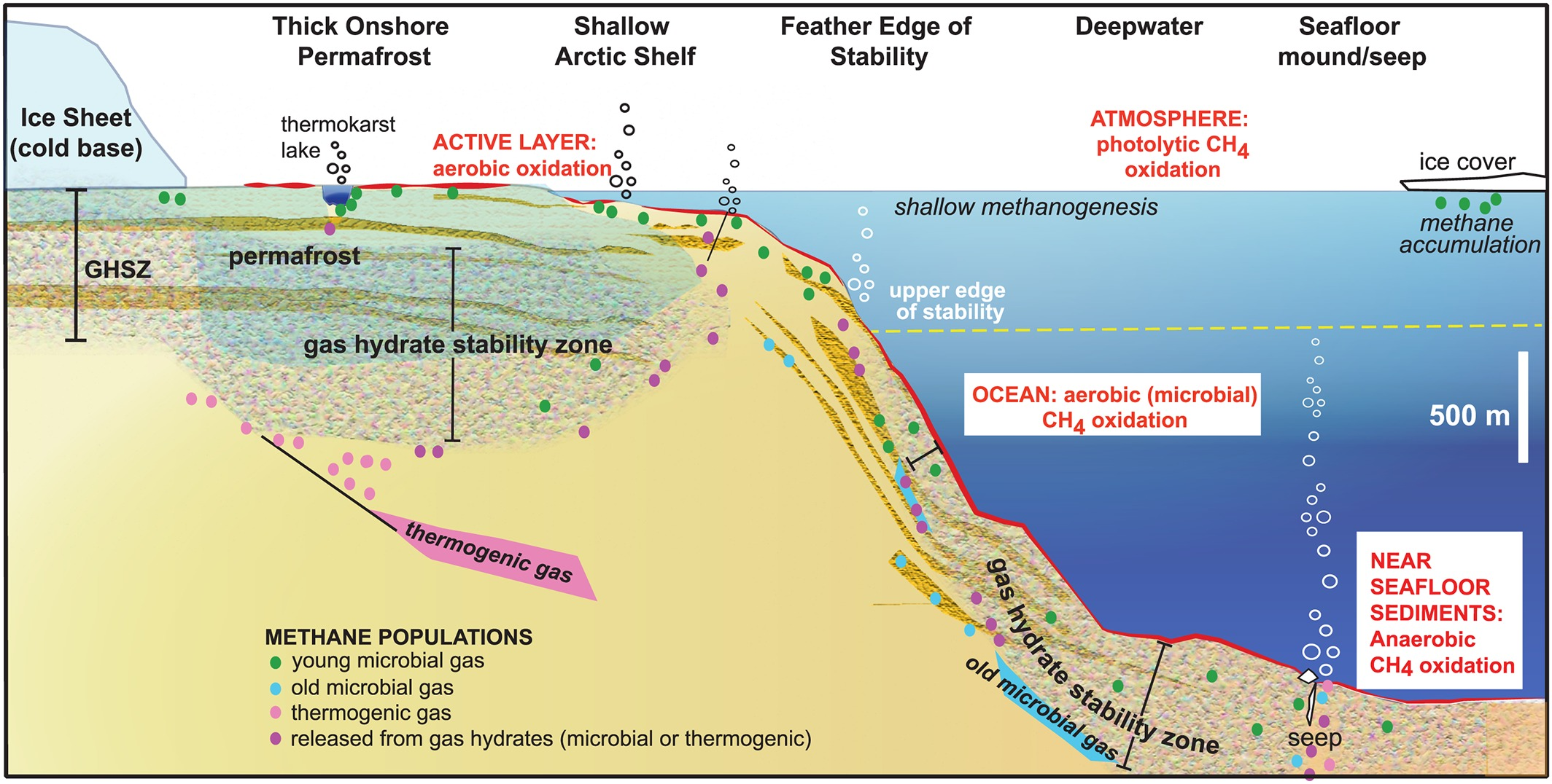 Currently, gas hydrates are most likely dissociating in sectors 2 and 3. Only sector 2 is likely to release methane that could reach the atmosphere. Modified from "Methane Hydrates and Contemporary Climate Change," by Carolyn Ruppel